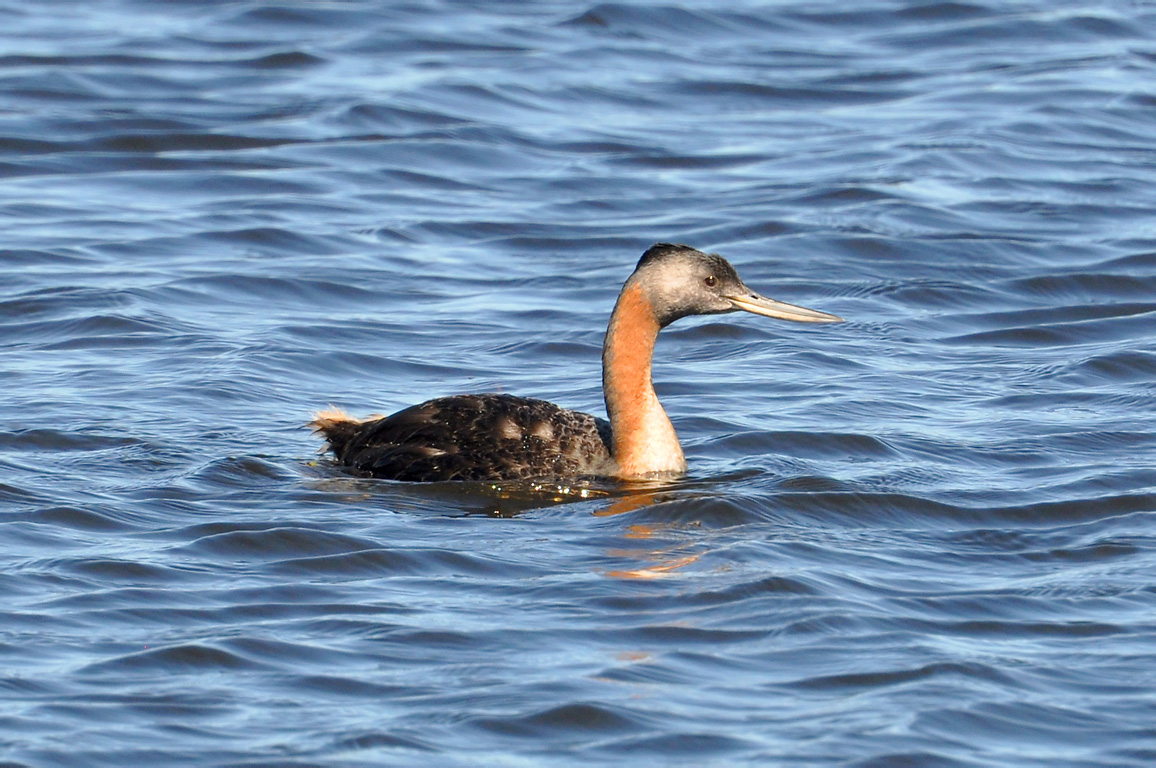 A Great Grebe swimming in Santa Vitória do Palmar, Rio Grande do Sul, Brazil.